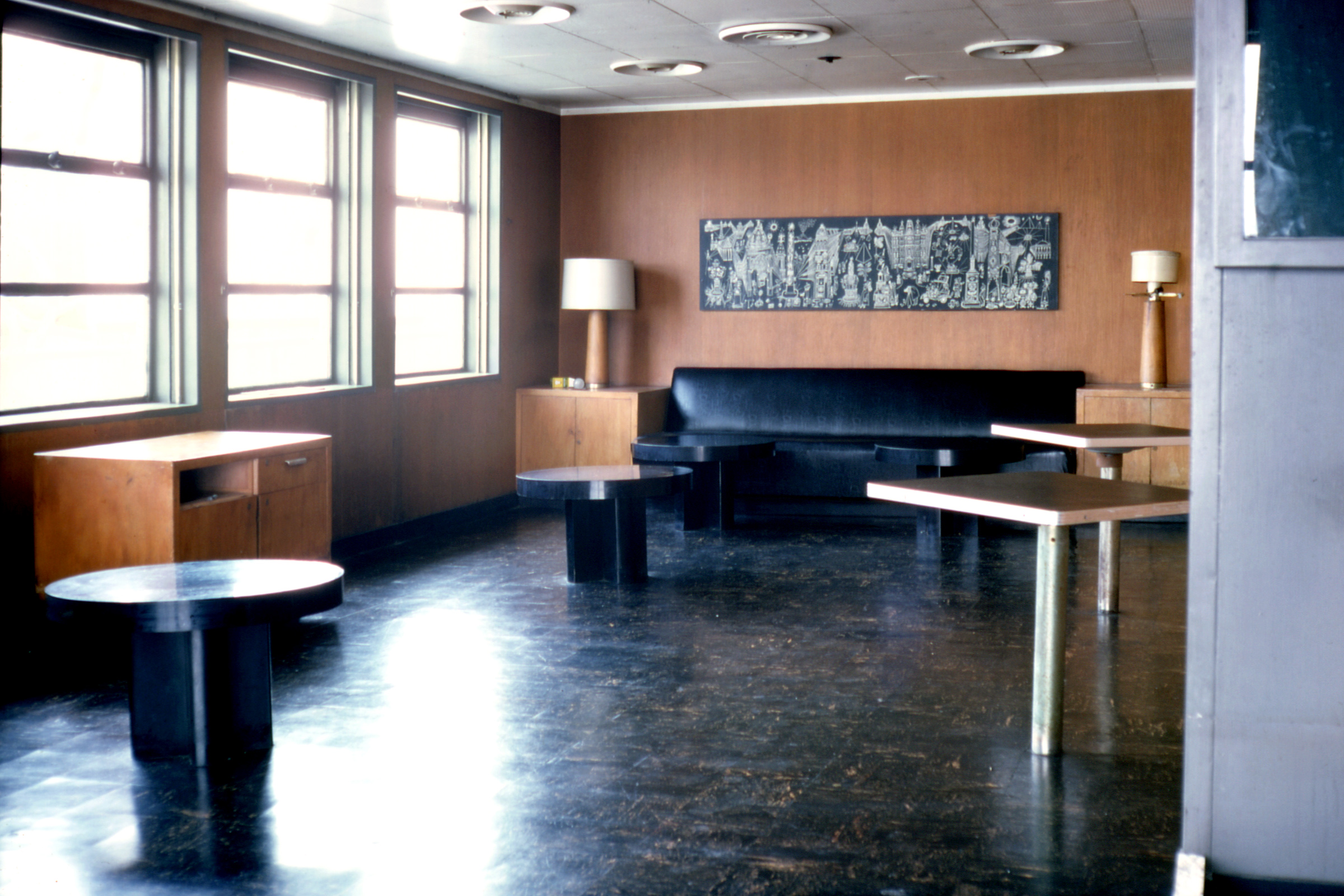 SS Stevens showing aft lounge on promenade deck, port side, looking toward the bow. SS Stevens was formerly cruise liner SS Exochorda of the New "4 Aces" fleet of American Export Lines Saul Steinberg mural shown on far wall. The image was scanned from the original Kodachrome 25 (Daylight) 35mm film image. For other photos, see SS Stevens Gallery